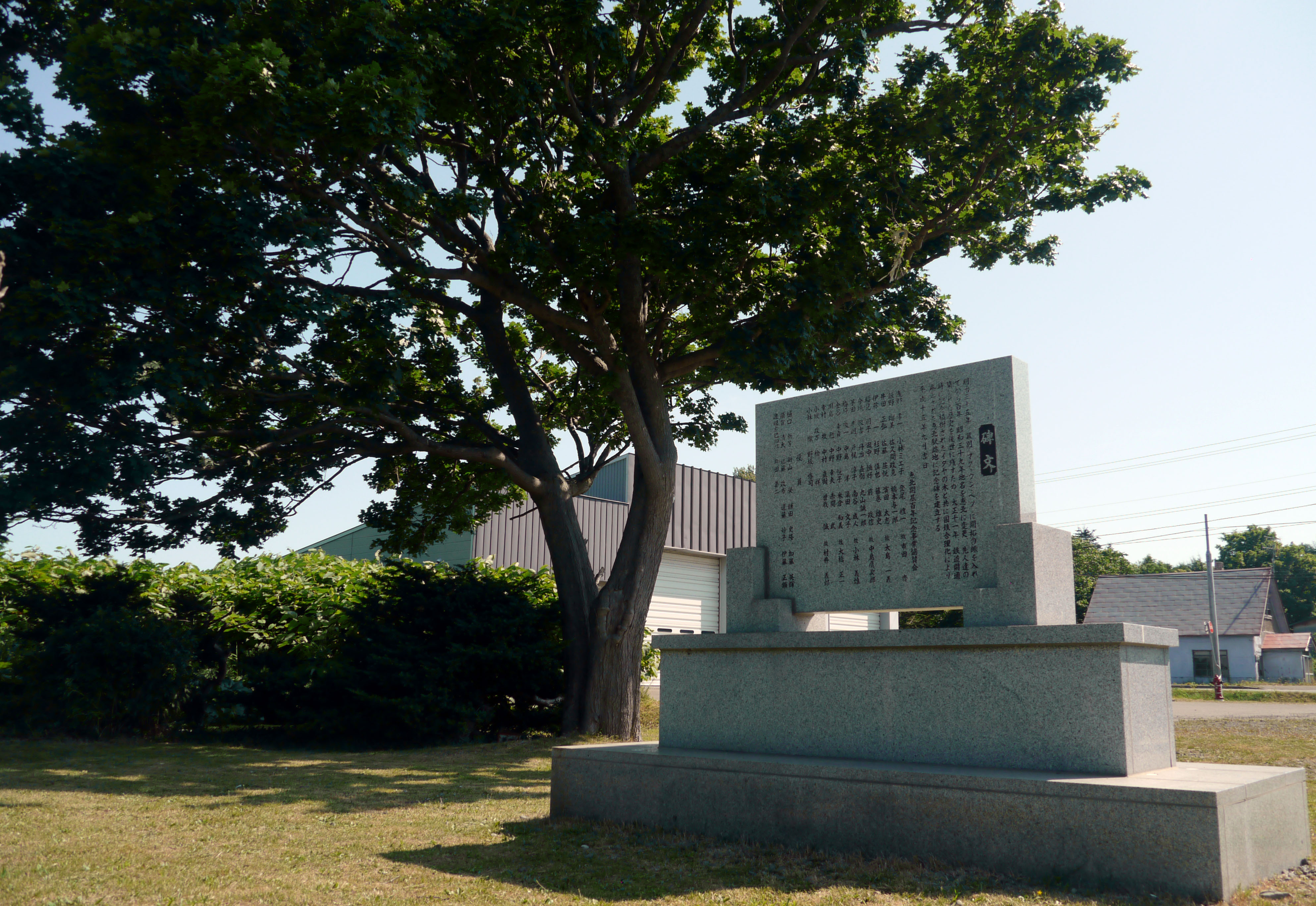 The remains of Keihoku Station of the Tenpoku Line in Hokkaido, Japan. Photo taken on August 4, 2011.